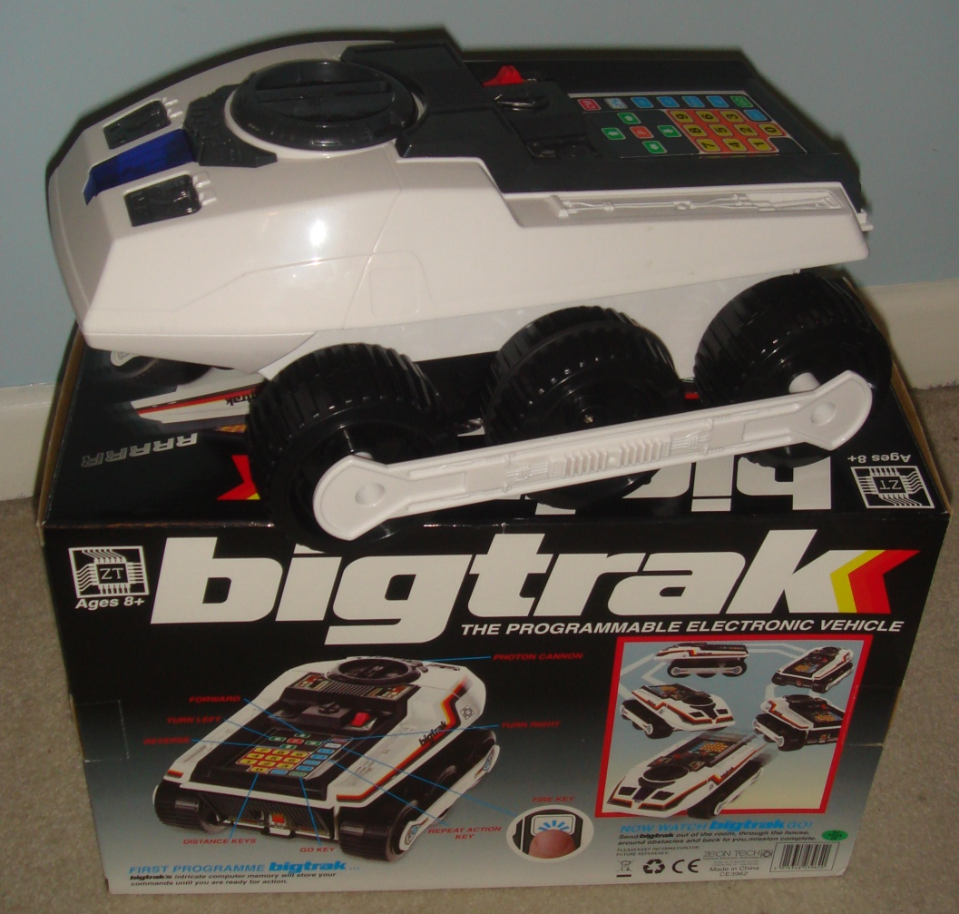 Photograph of a Zeon Tech re-issued Bigtrak, both Bigtrak, and the box. The box show the features of the Bigtrak.